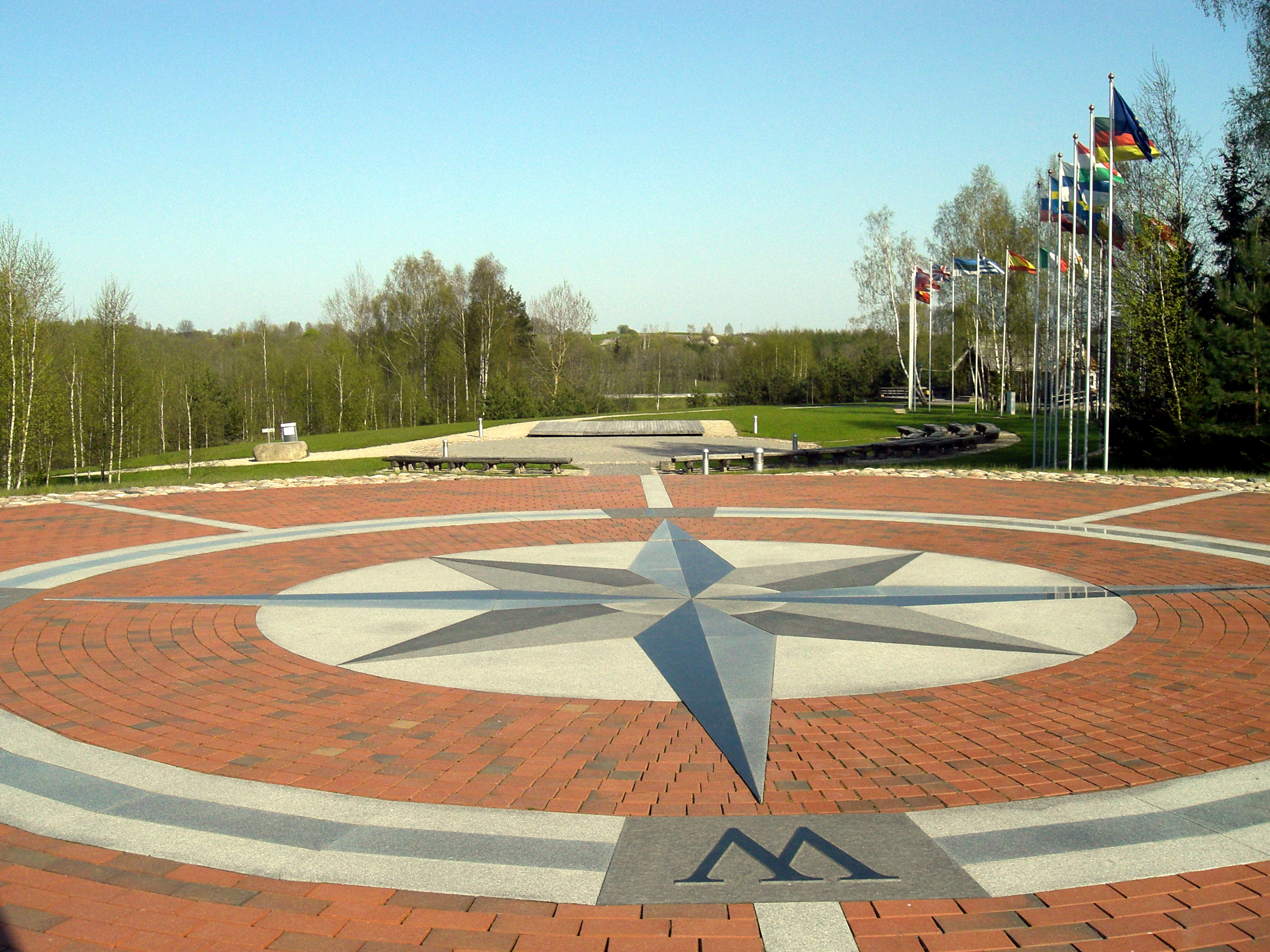 Centre of Europe, Lithuania